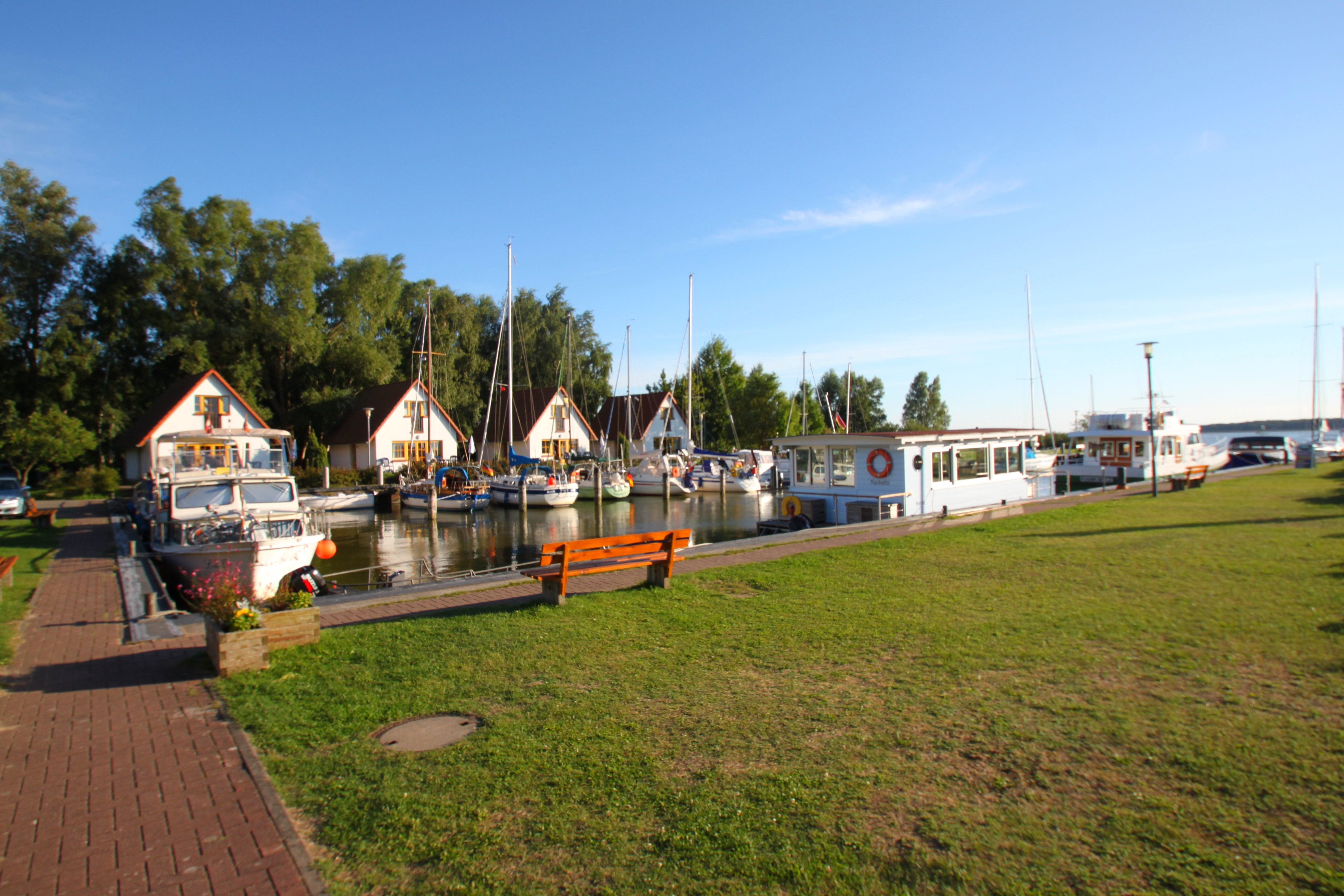 Am Hafen in Rankwitz